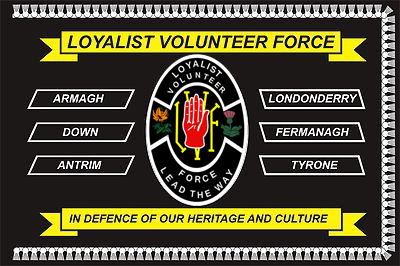 flag used by the Loyalist Volunteer Force.